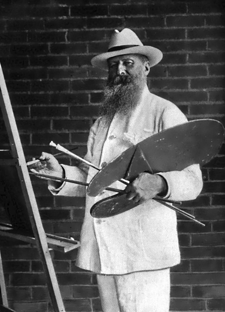 1902 portrait photograph of Vasily Vasilyevich Vereshchagin. Caption: "Vasili Vereshchagin - The famous Russian painter of battle scenes, who has been making the war of the United States in Cuba and in the Philippines the subject of his latest work. This portrait shows him in his Cuban working costume."